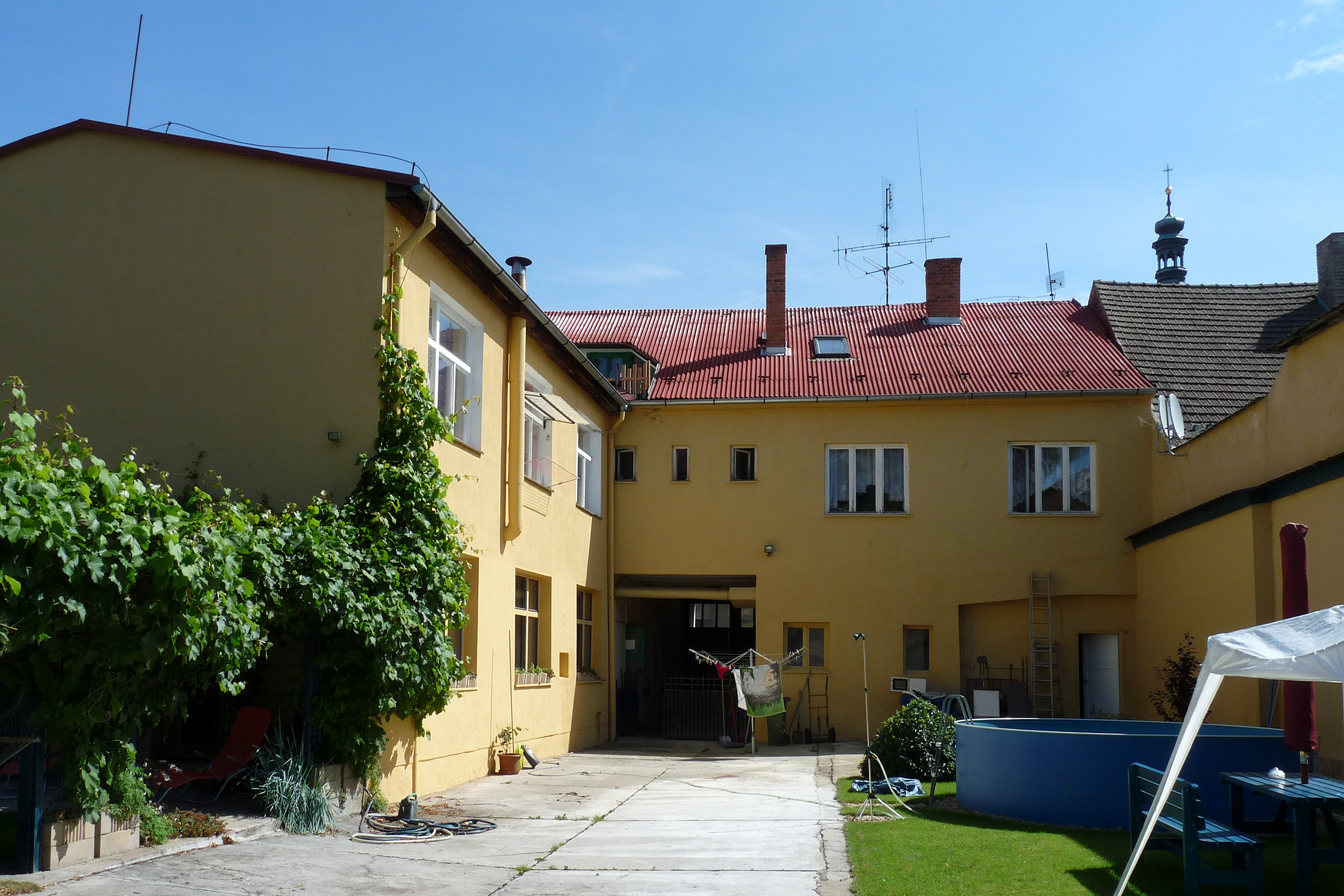 Former synagogue in the town of Soběslav, Tábor District, Czech Republic, nowadays house No 30 in Jirsíkova Street, veiw from the yard